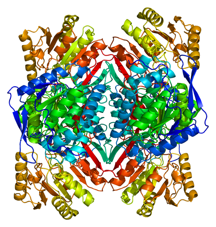 Structure of the ALDH2 protein. Based on PyMOL rendering of PDB 1a4z.